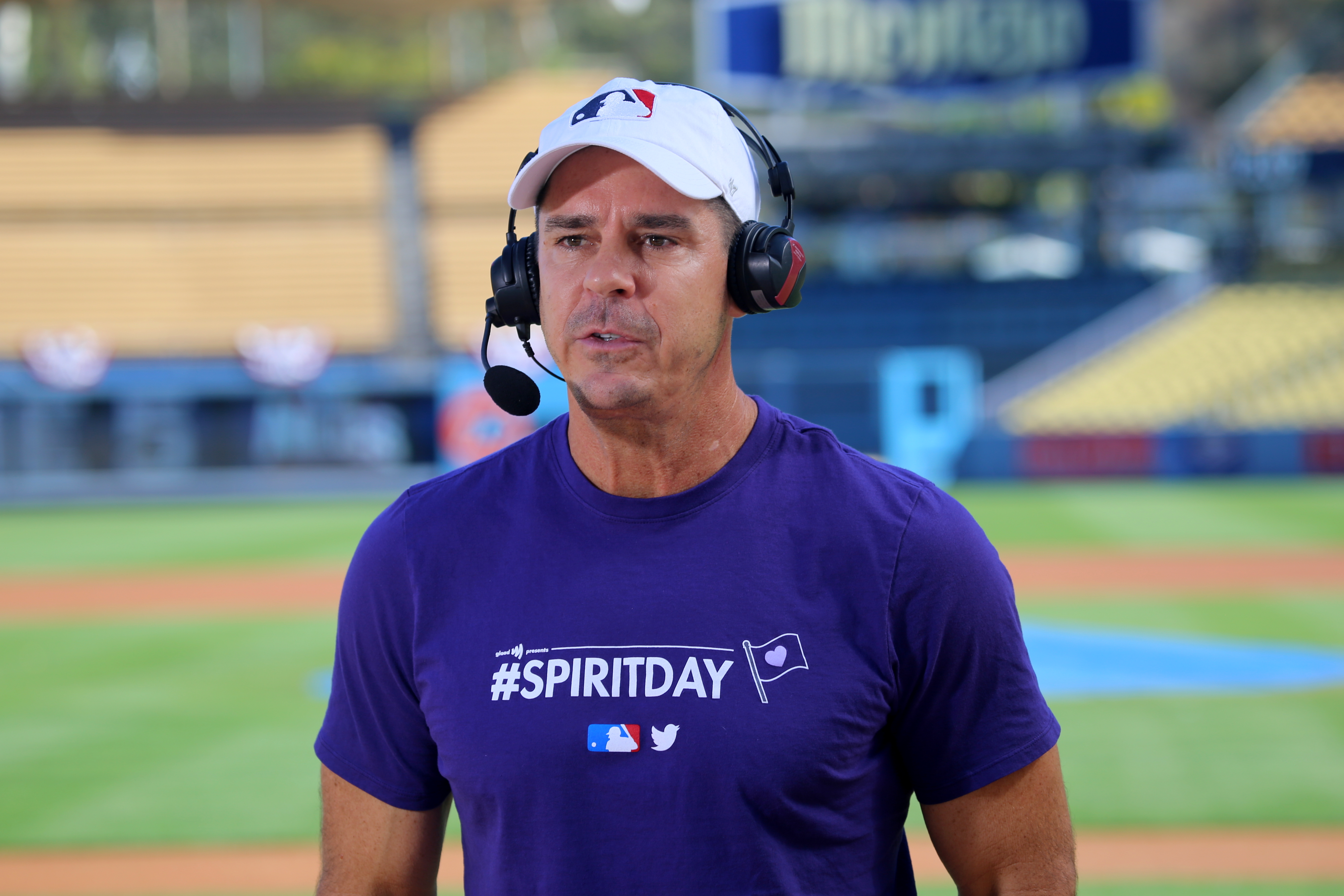 Billy Bean, MLB's VP of social responsibility and inclusion, discusses #SpiritDay with MLB Network.